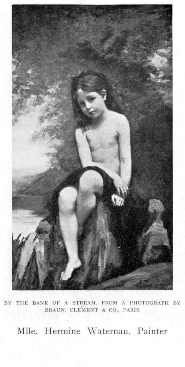 1905 print after page of Women painters of the world, from the time of Caterina Vigri, 1413-1463, to Rosa Bonheur and the present day, by Walter Shaw Sparrow, The Art and Life Library, Hodder & Stoughton, 27 Paternoster Row, London